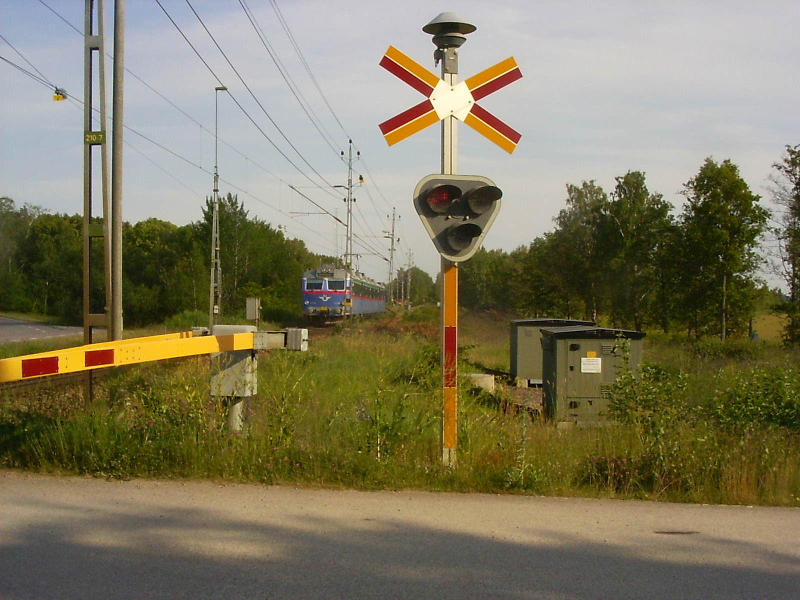 X12 electric multiple unit south of Borgåsund Bridge